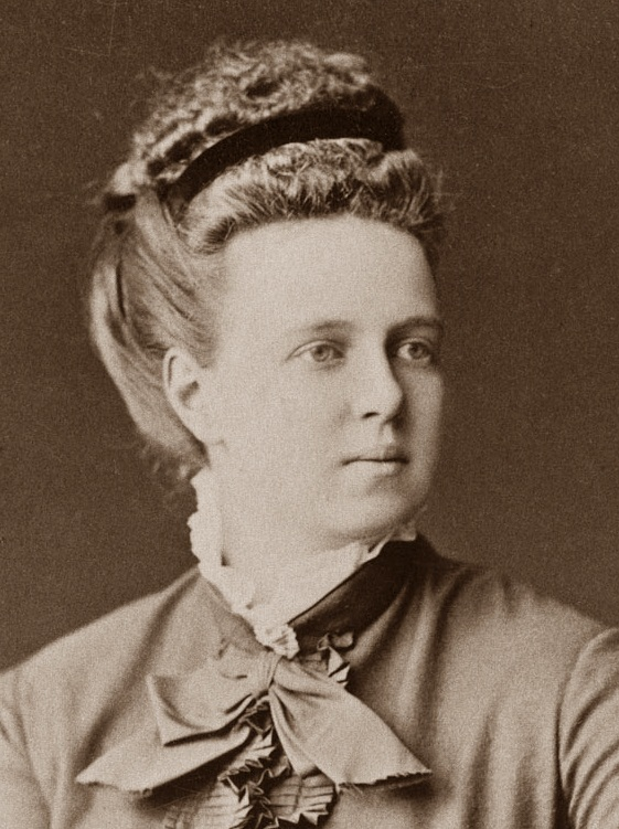 Grand Duchess Maria Alexandrovna of Russia (later Duchess of Edinburgh and Duchess of Saxe-Coburg and Gotha)